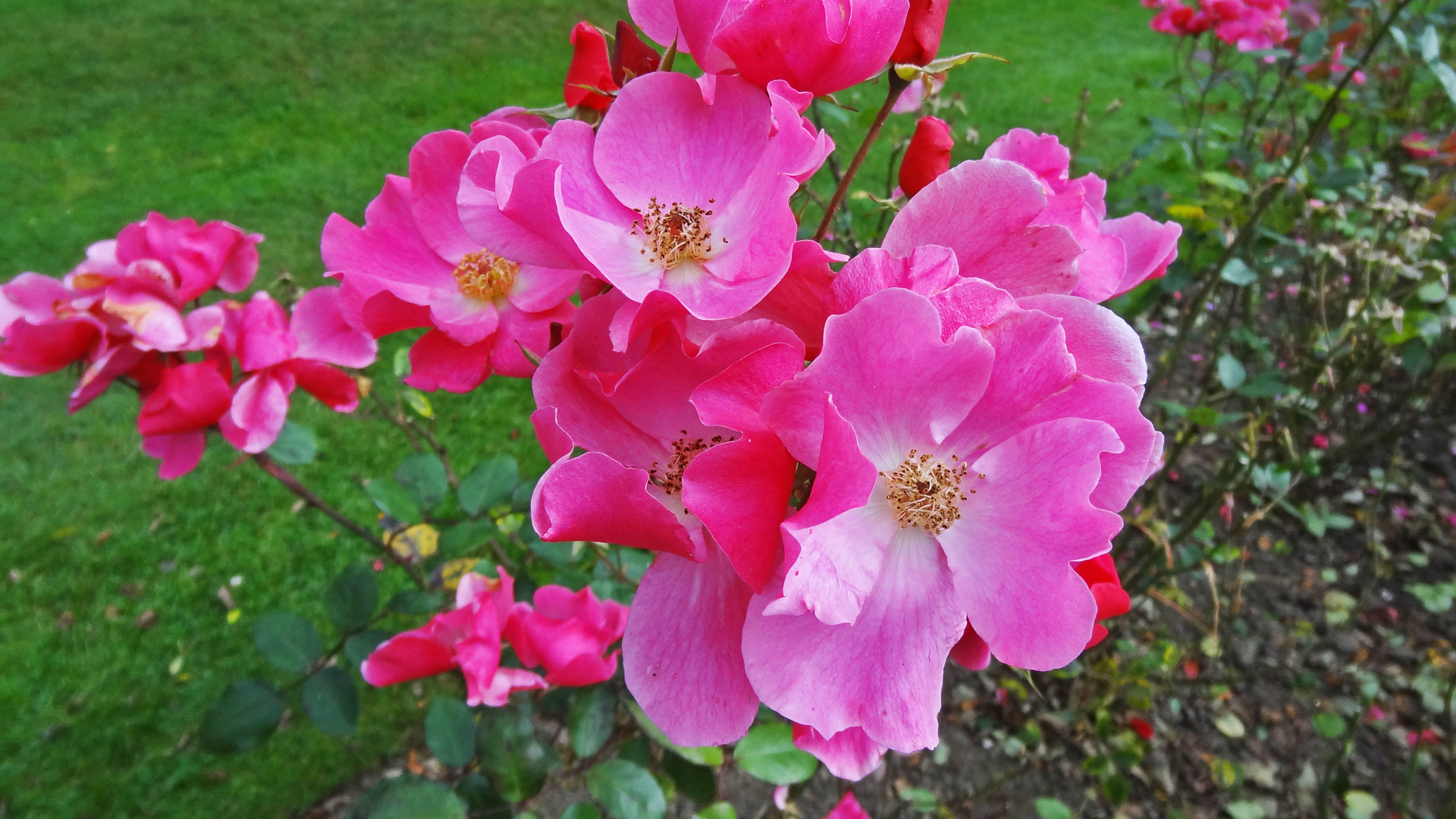 rose cultivar "Betty Prior" in the gardens at Bateman's, Rudyard Kipling's former house in Burwash, East Sussex